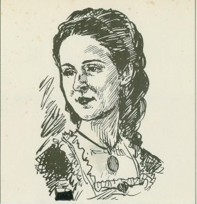 Alejandrina Benítez de Gautier (1819–1879.) Summary My personal drawing